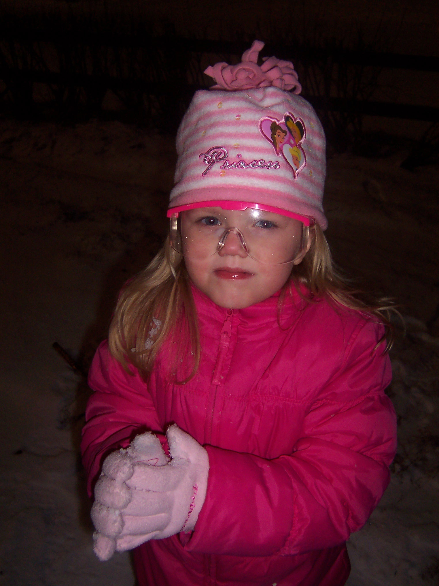 Eva Dröfn, girl in Iceland